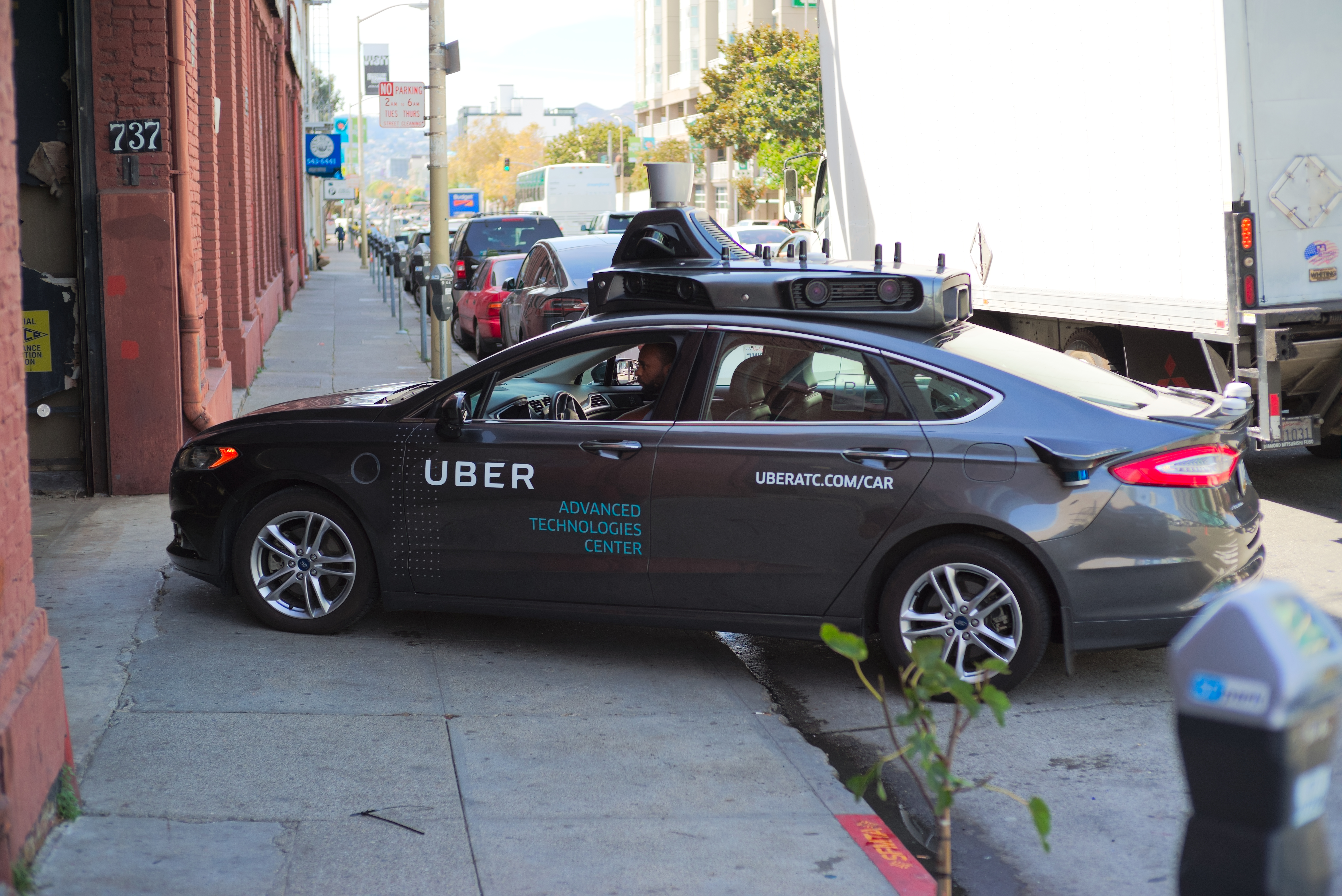 Uber self driving car prototype testing in San Francisco.